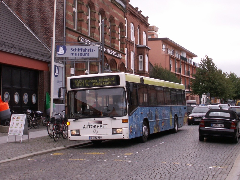 City-bus Husum on (former) route #1054 (Husum–Mildstedt–Husum Bahnhof adjacent of Husums Schiffahrtsmuseum Nordfriesland